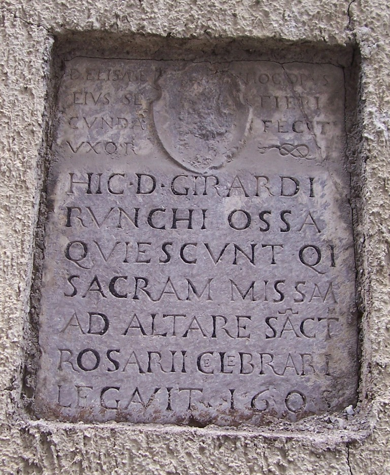 Gerardo Ronchi's plaque, Duomo - Chiesa della Trasfigurazione di Nostro Signore Gesù Cristo. Breno, Val Camonica